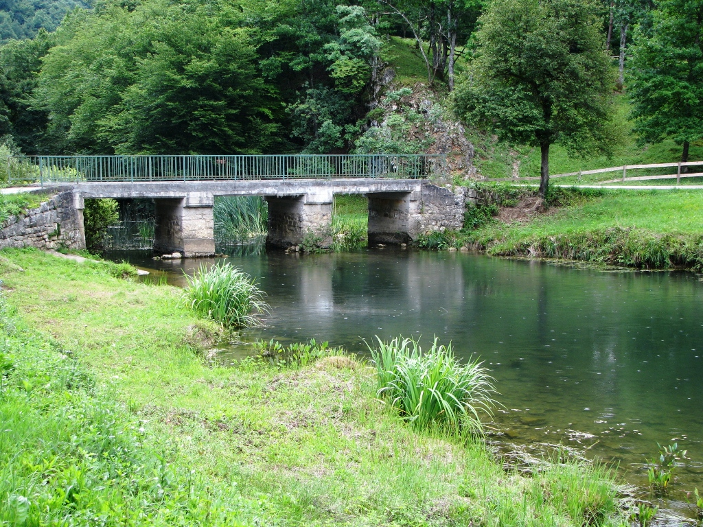 Lahinja in Butoraj - a bridge towards the village Zorenci.